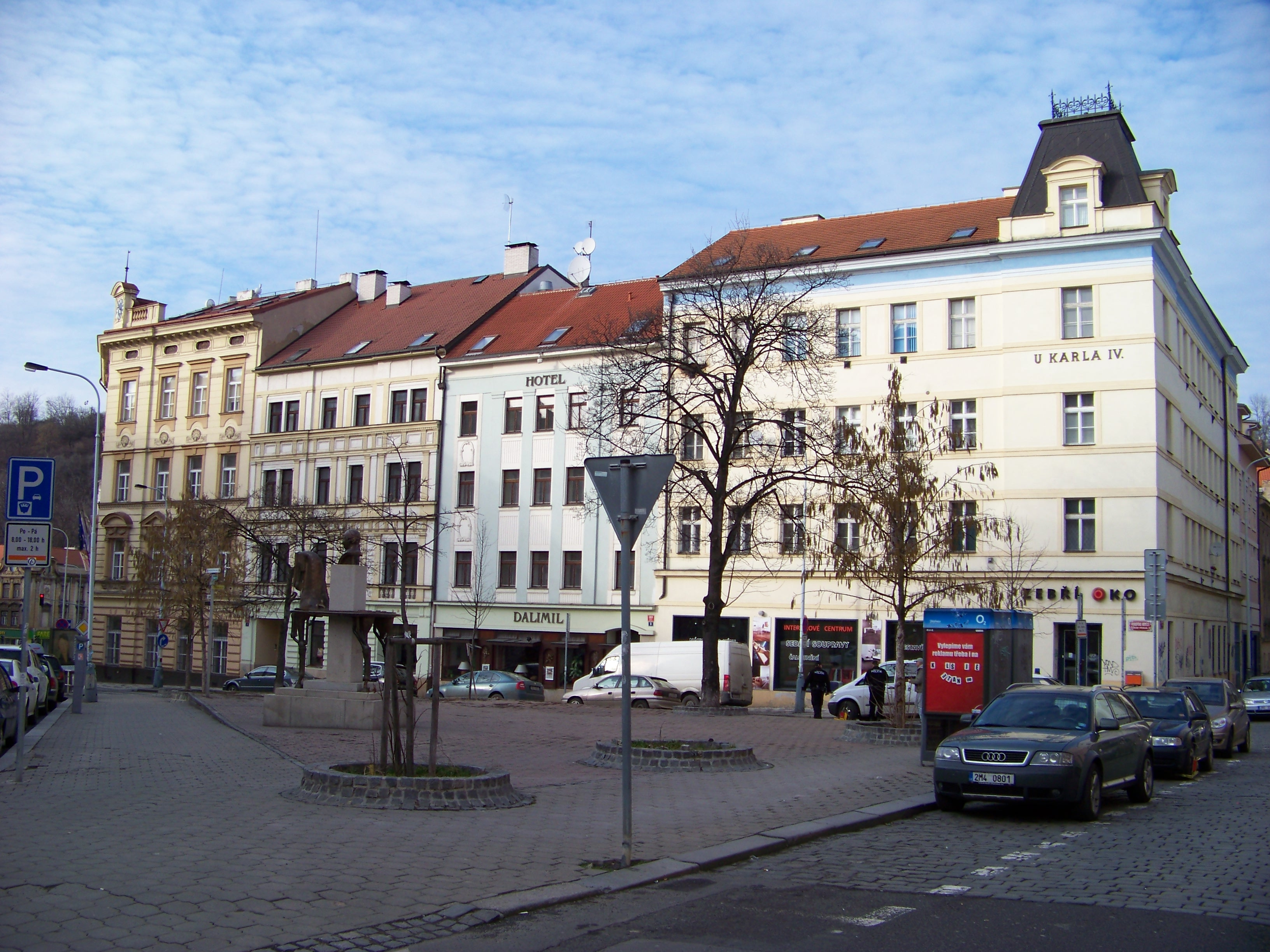 Prague-Žižkov, the Czech Republic. Prokop's Square. s - Google Maps - Google Earth